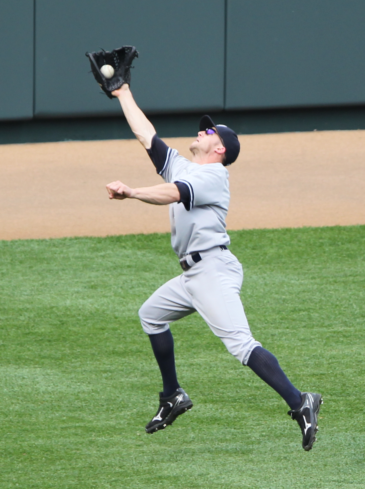 Brett Gardner makes a outstretched catch during a game between the New York Yankees and Baltimore Orioles on April 24, 2011.